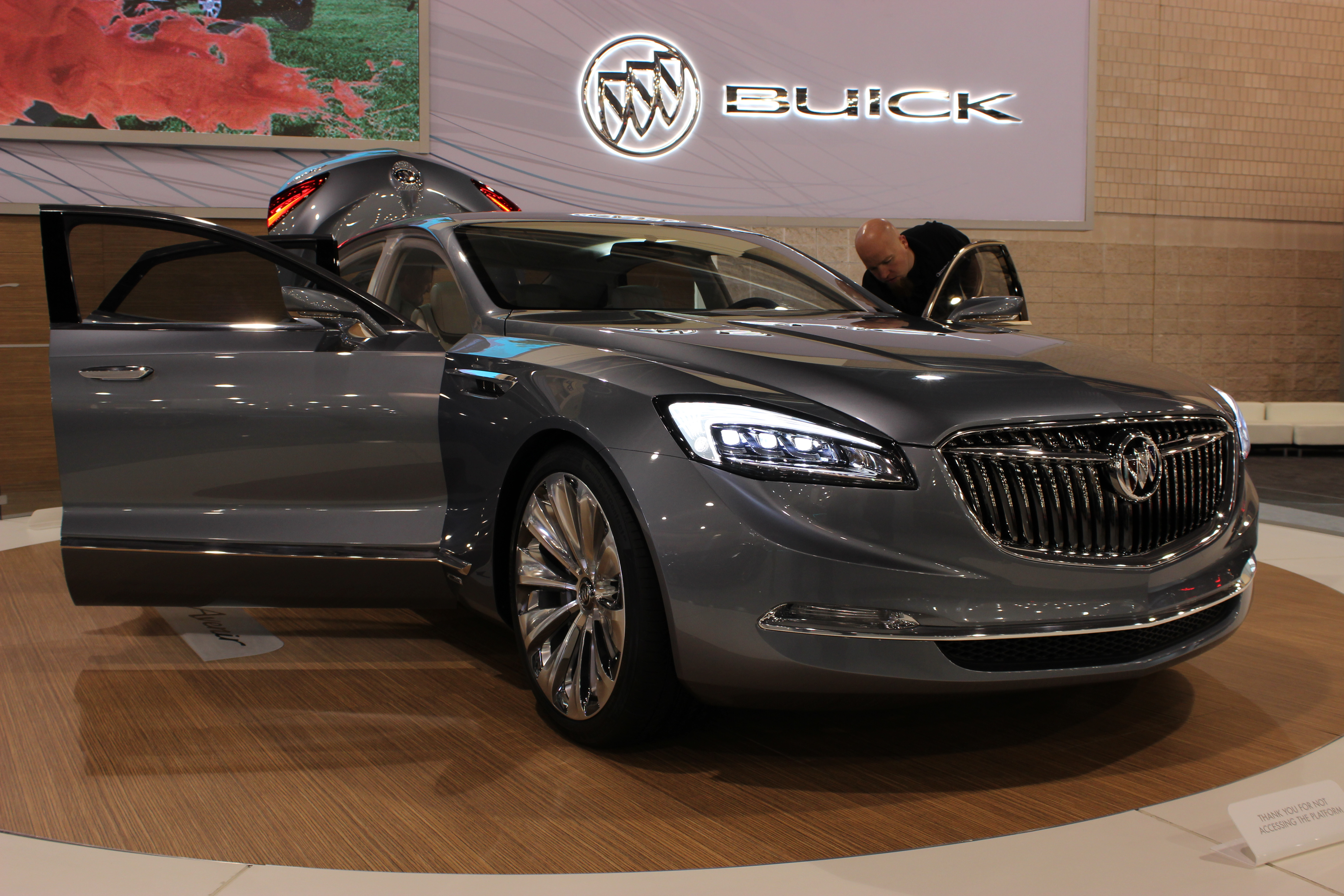 Buick Avenir Concept